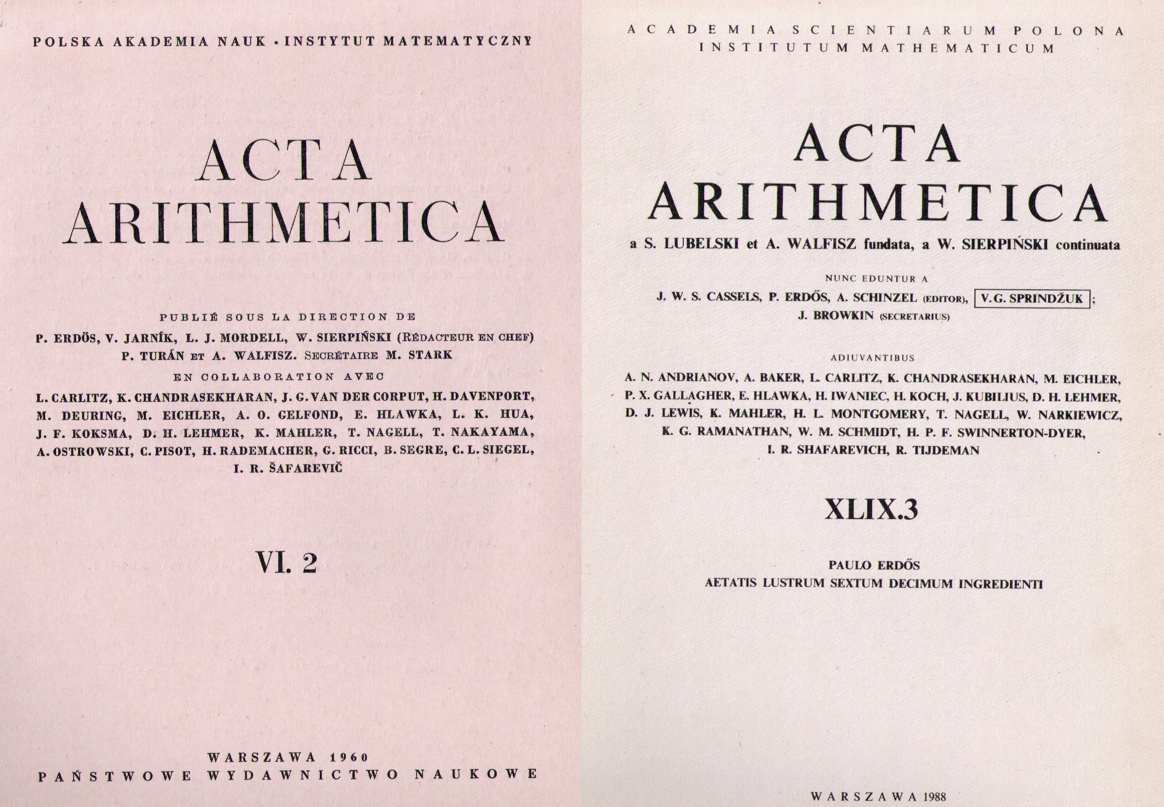 Scan of title page from 1988 volume of the journal "Acta Arithmetica"